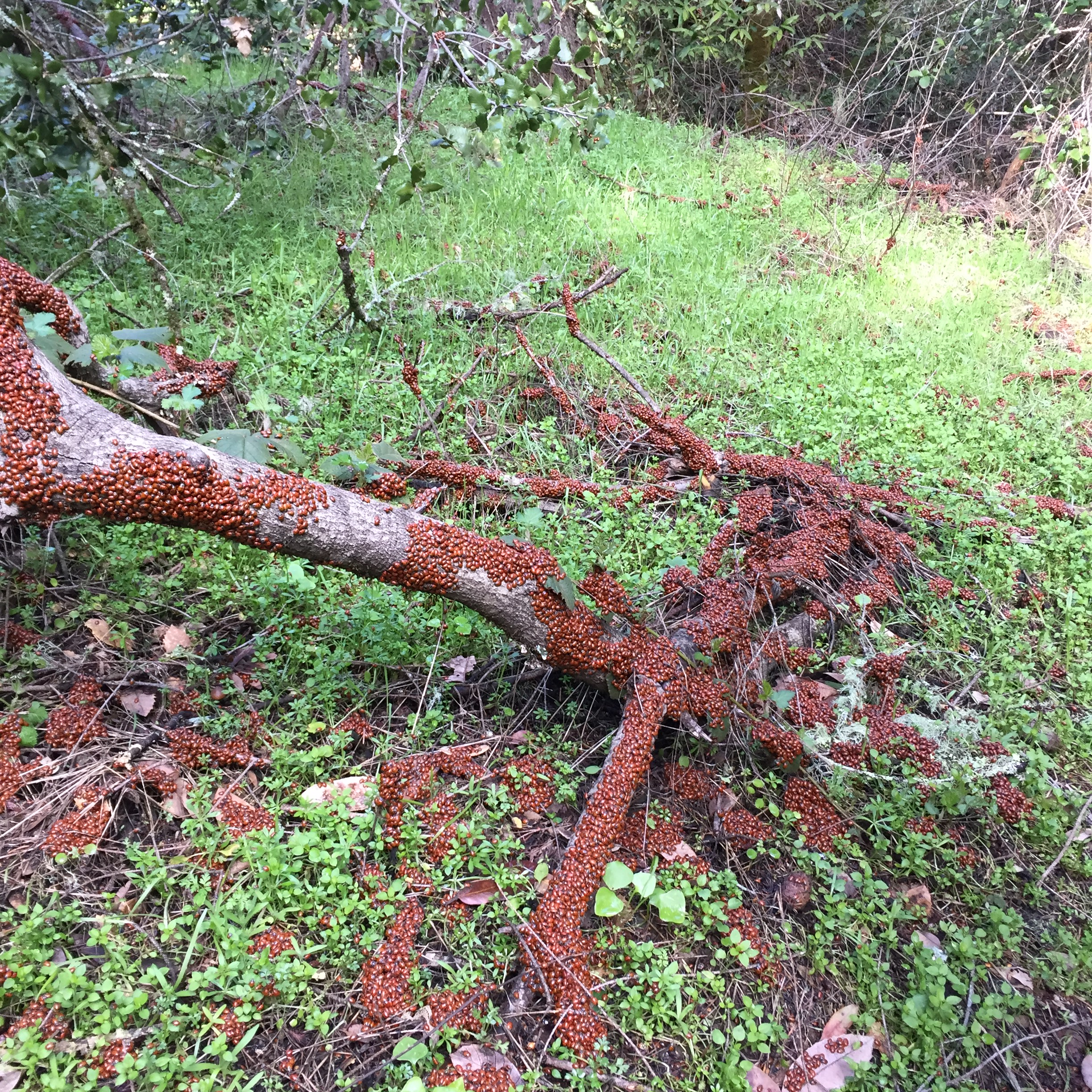 Ladybugs in Stevens Creek, CA, in early spring